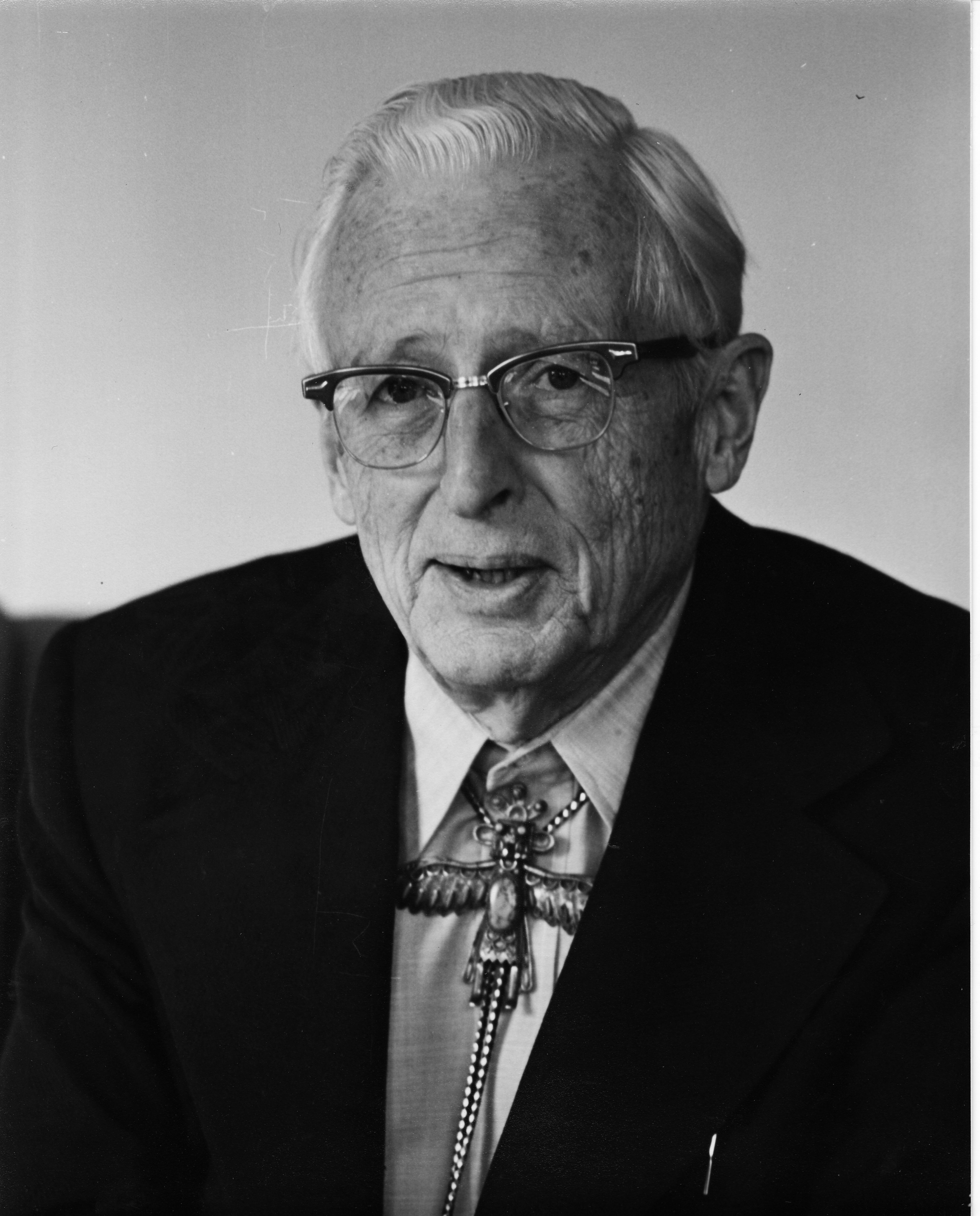 Portrait provided by Donald Menzel's daughter, Elizabeth Menzel Davis, photograph by Babette Whipple